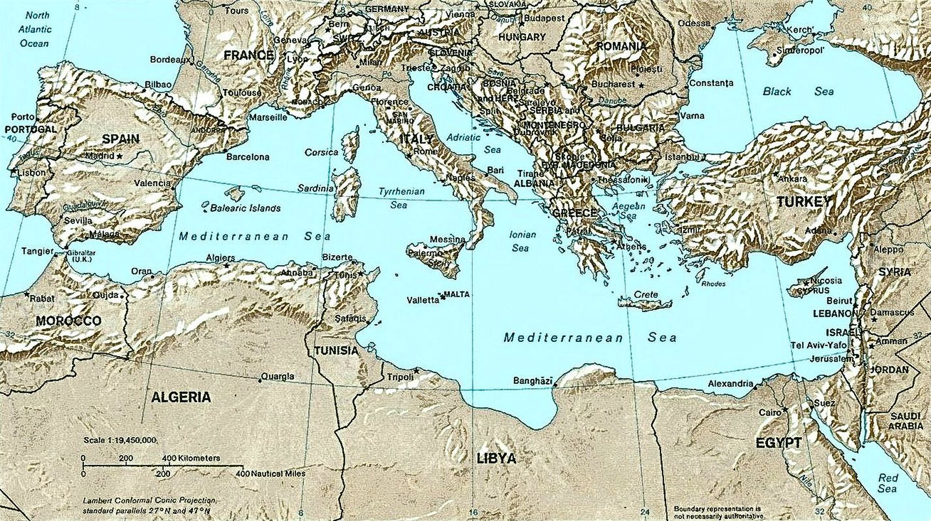 Relief map of the Mediterranean Sea and surrounding countries